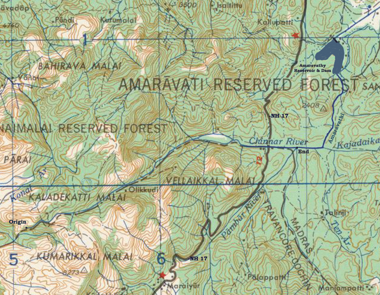 Chinnar & Amaravathi rivers, India